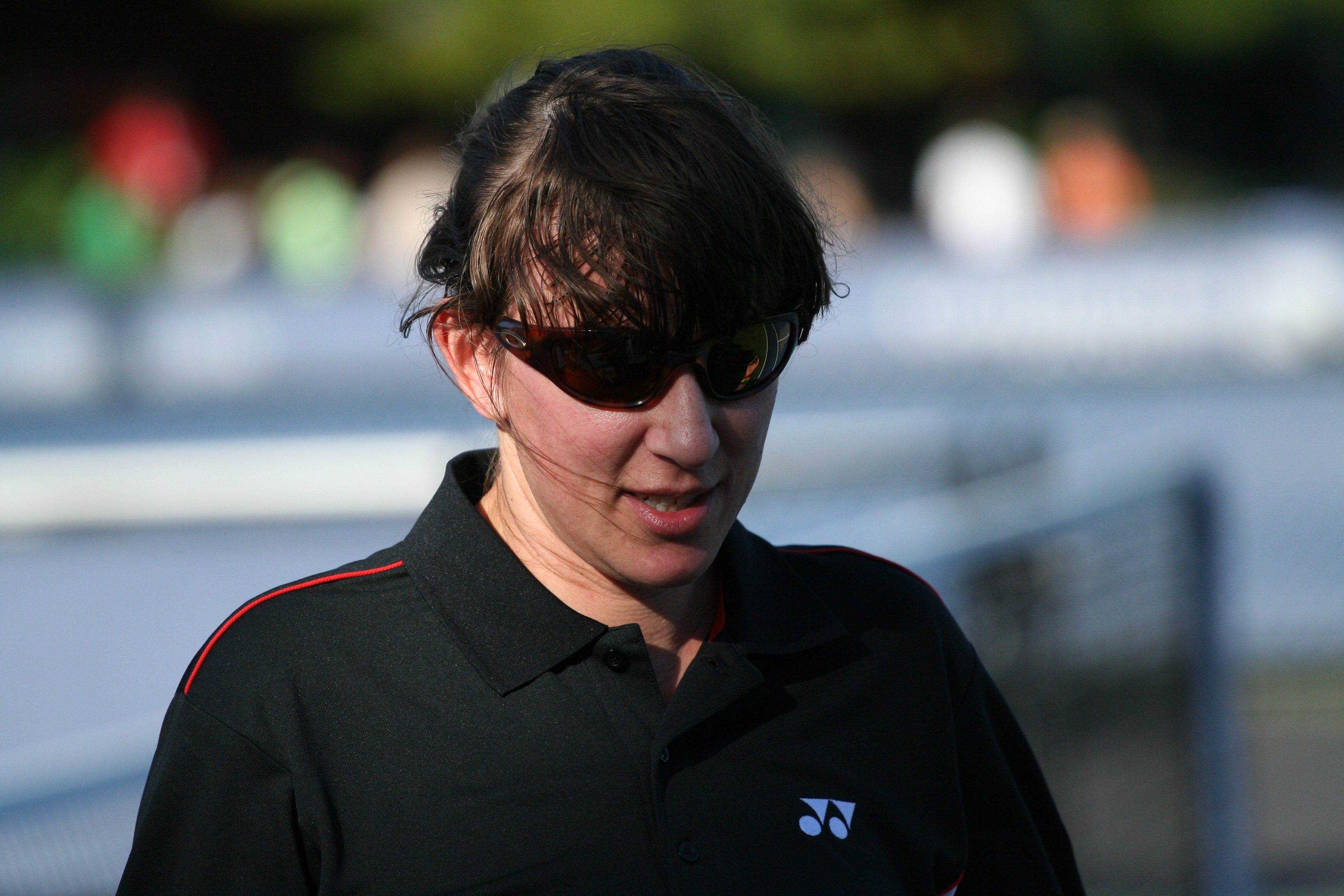 U.S. Open Champions Team Tennis; Sept. 8, 2010